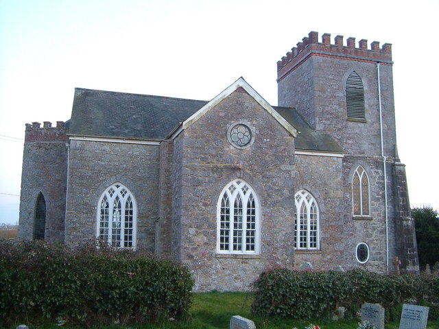 Parish church of SS Peter and Paul, Teigngrace, Devon, seen from the north. A cruciform church built in 1786.